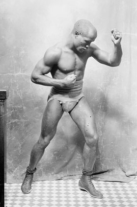 Full-length portrait of Young Peter Jackson, African American boxer, facing his left, standing in a boxing stance in a stairwell hallway in the Chicago Daily News building in Chicago, Illinois.